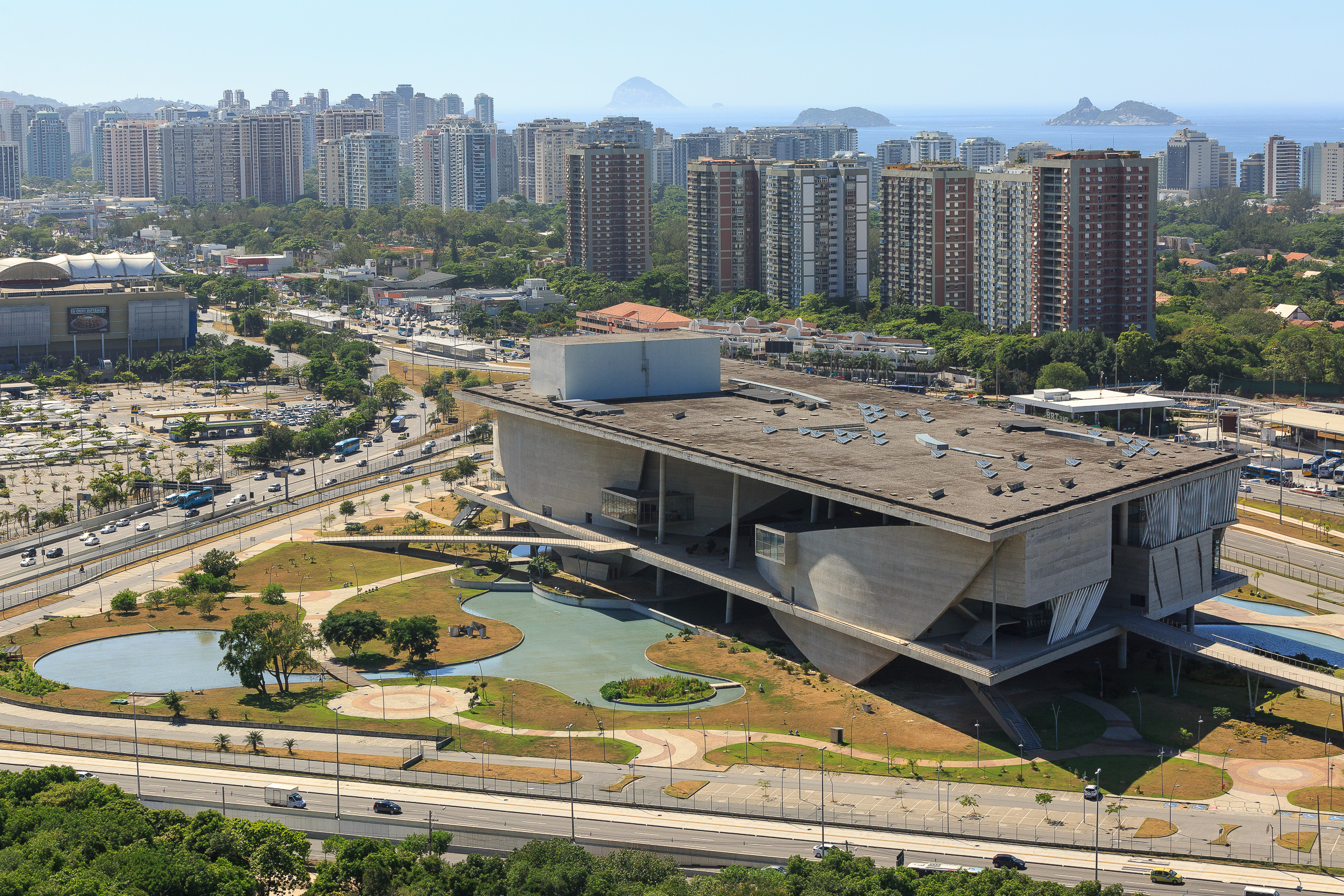 Vista aérea da Cidade das Artes na Barra da Tijuca, localizada na cidade do Rio de Janeiro